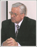 Photo of Mitrofan